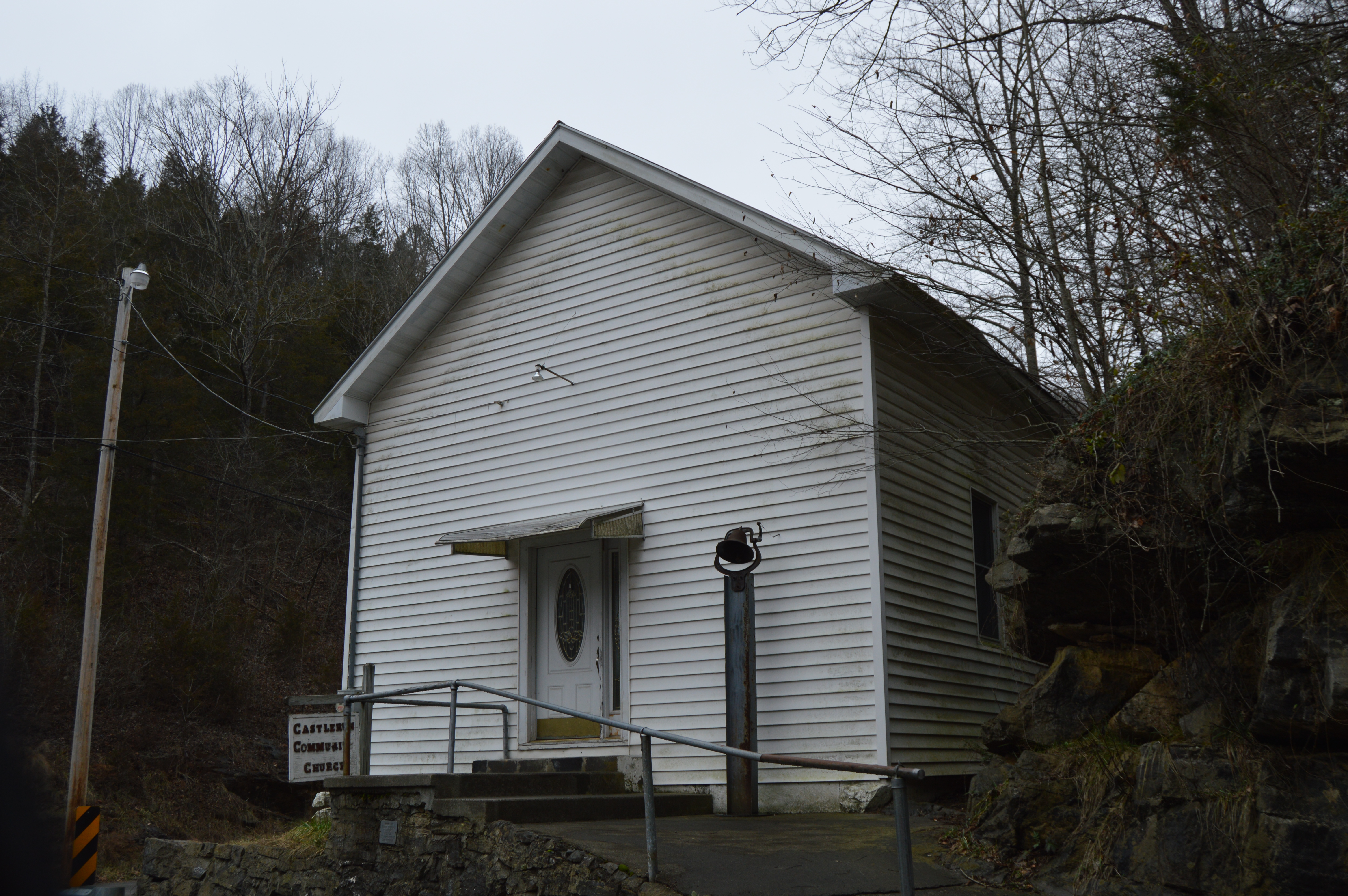 Front and southern side of the Castle Run Community Church (formerly Baptist), located at the intersection of Routes 682 and 693 south of Castlewood in Russell County, Virginia, United States. Built in 1924, it and the adjacent former school are listed together on the National Register of Historic Places as the Castlerun Historic District.